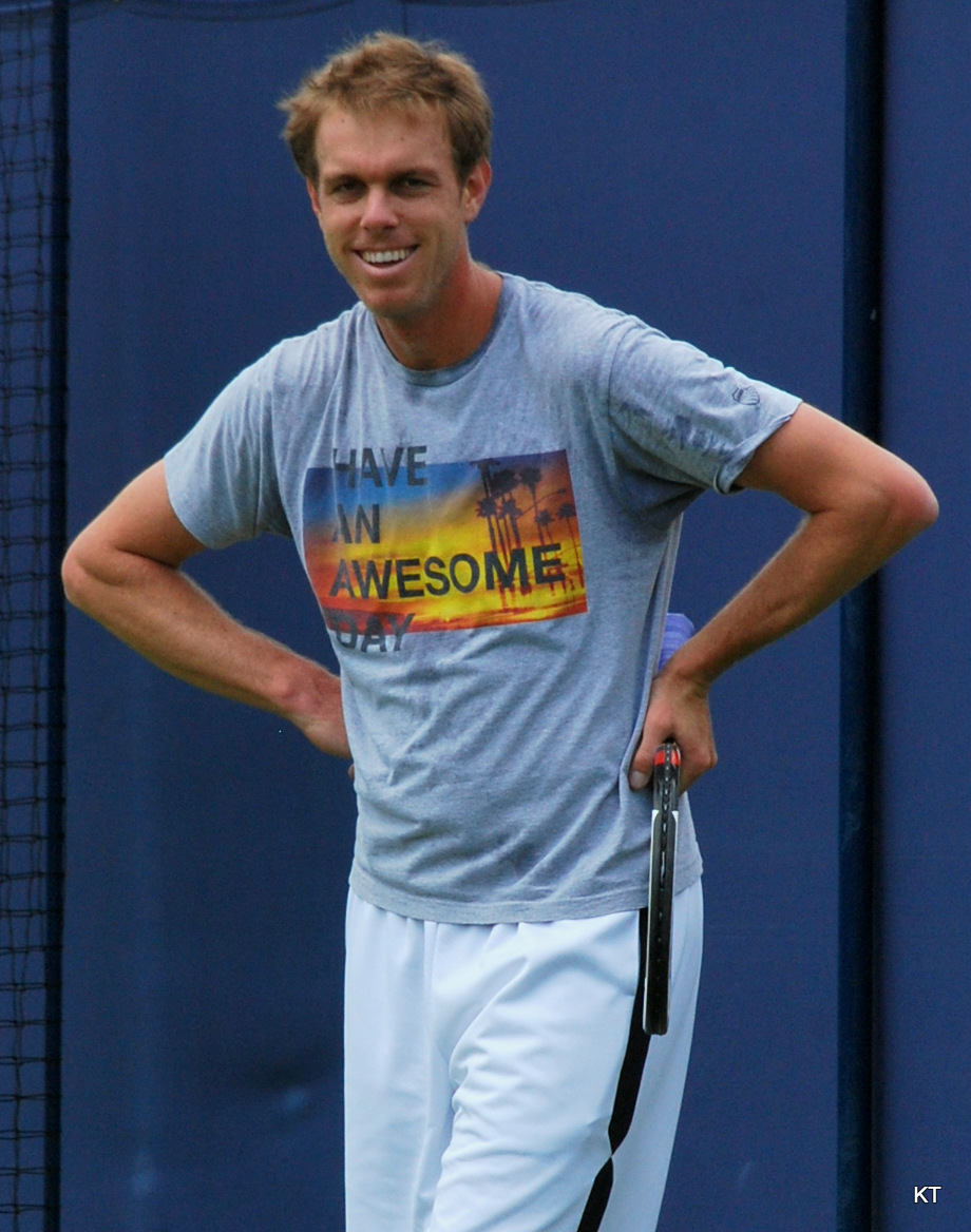 Sam Querrey on the practice court. Aegon Championships, Queen's Club, 2012.